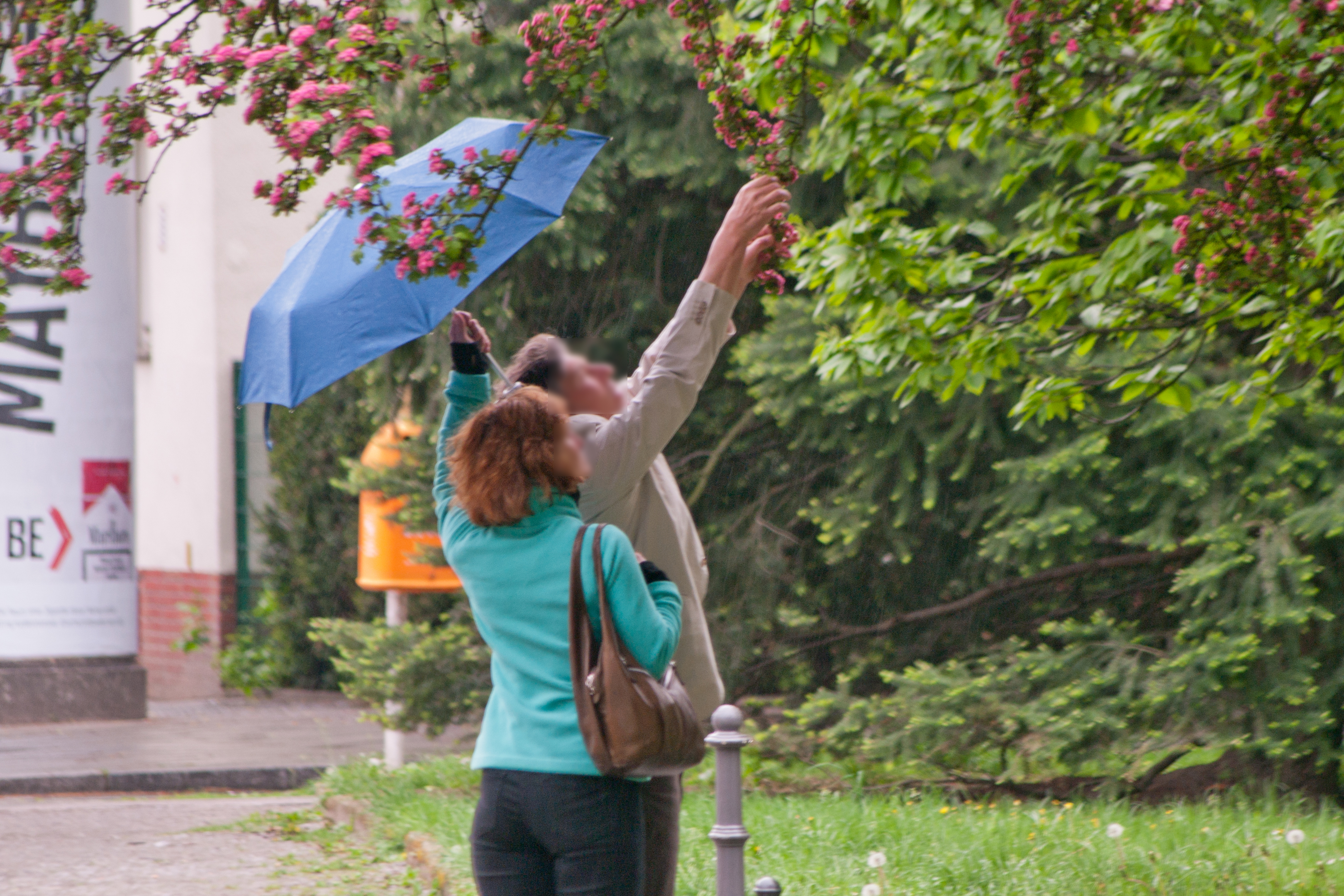 A couple picking some flowers from a tree on a rainy Breite Straße - Berlin-Schmargendorf's main street.